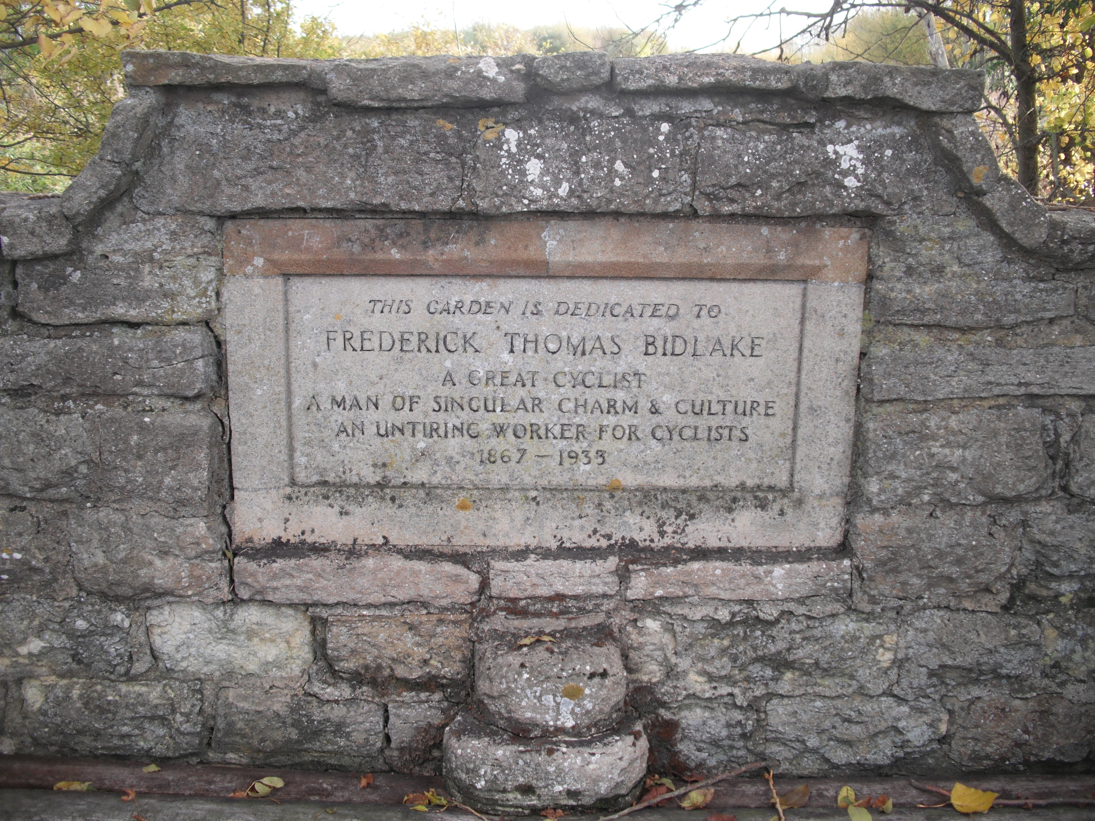 Plaque in the Bidlake Memorial Garden in Sandy, Bedfordshire.